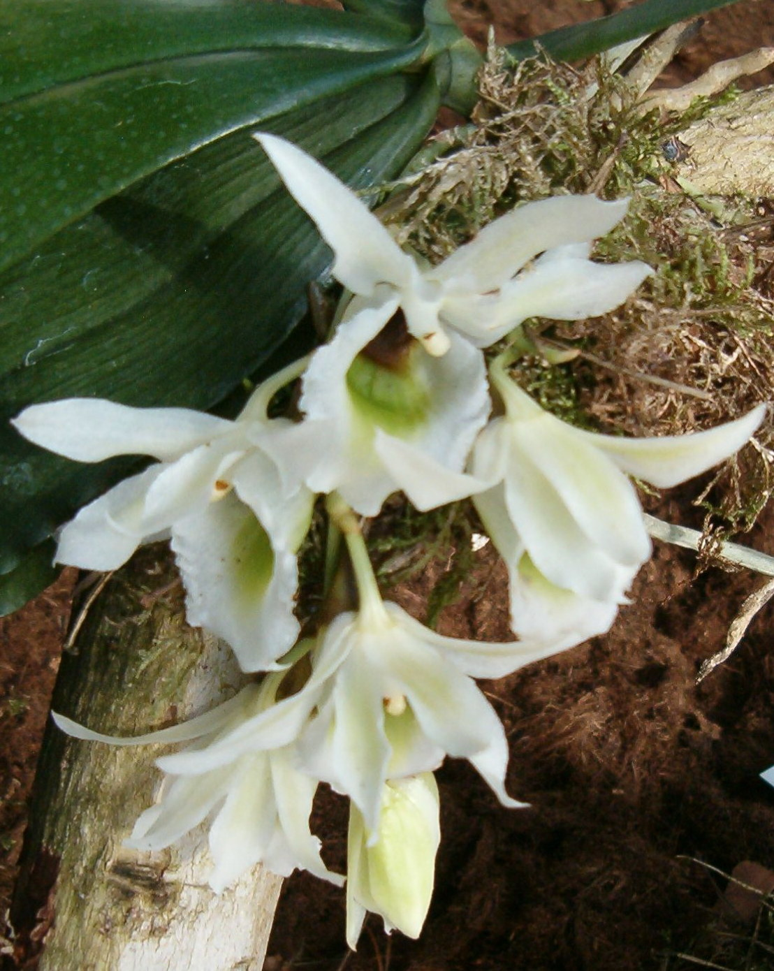 Eurychone rothschildiana, Habitus and Flowers Location: Botanical Gardens Berlin - Orchid Exhibition